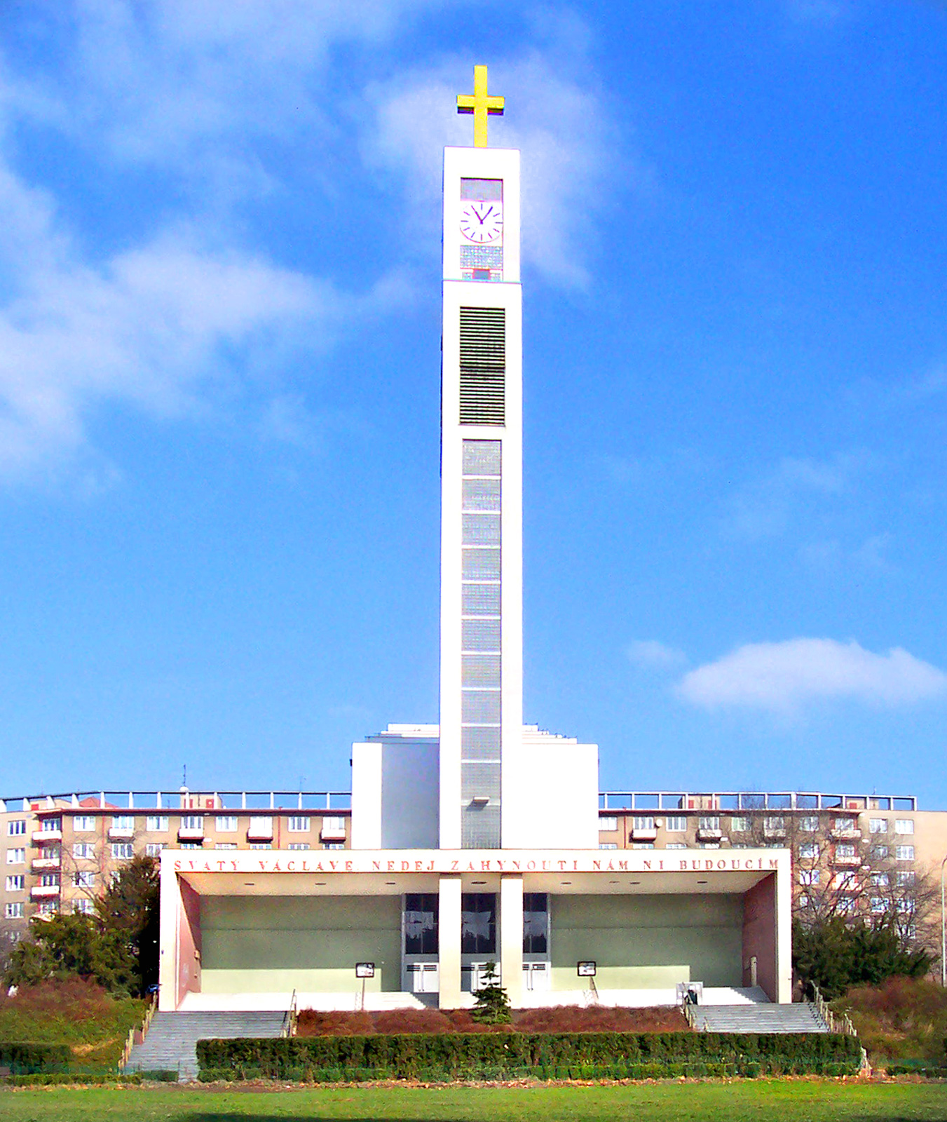 Saint Wenceslas church, Svatopluk Čech square at Vršovice, Prague (Czech Republic). Prestige functional building by Czech architect Josef Gočár from 1929 – 1930.